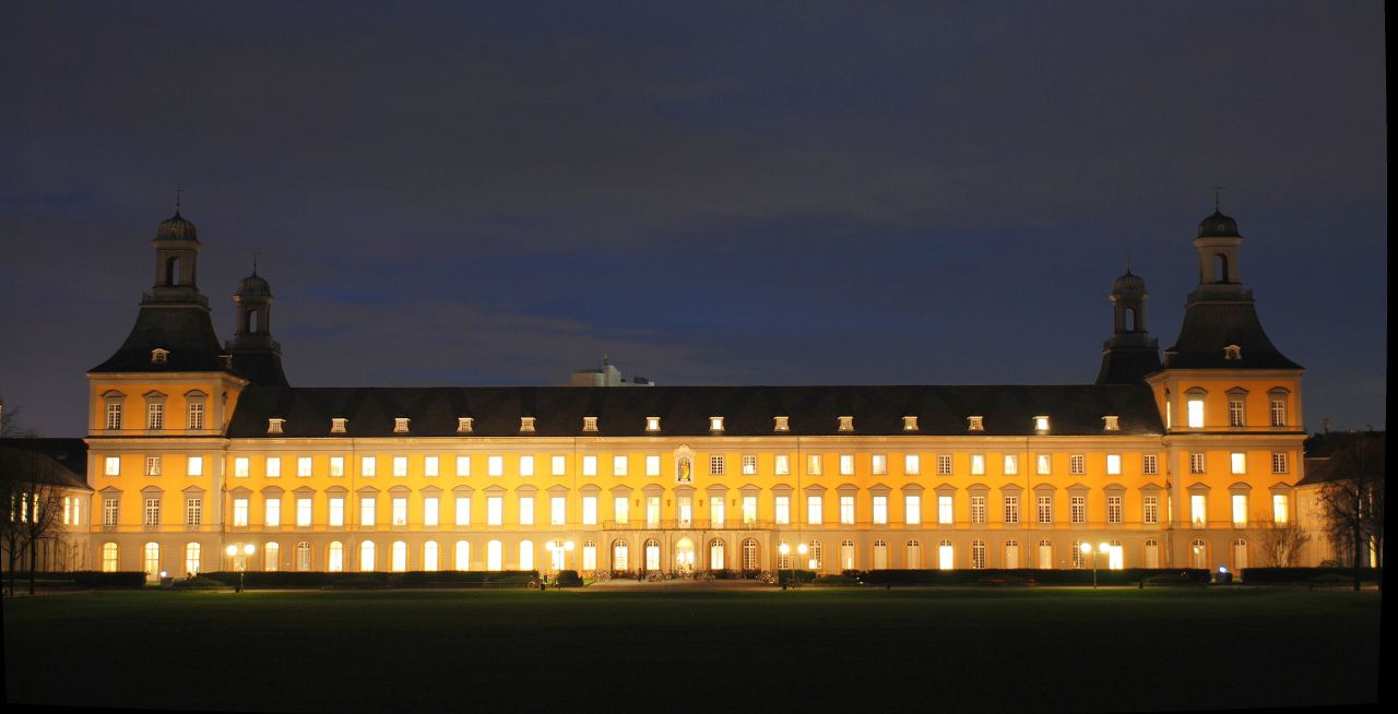 The university of Bonn at night